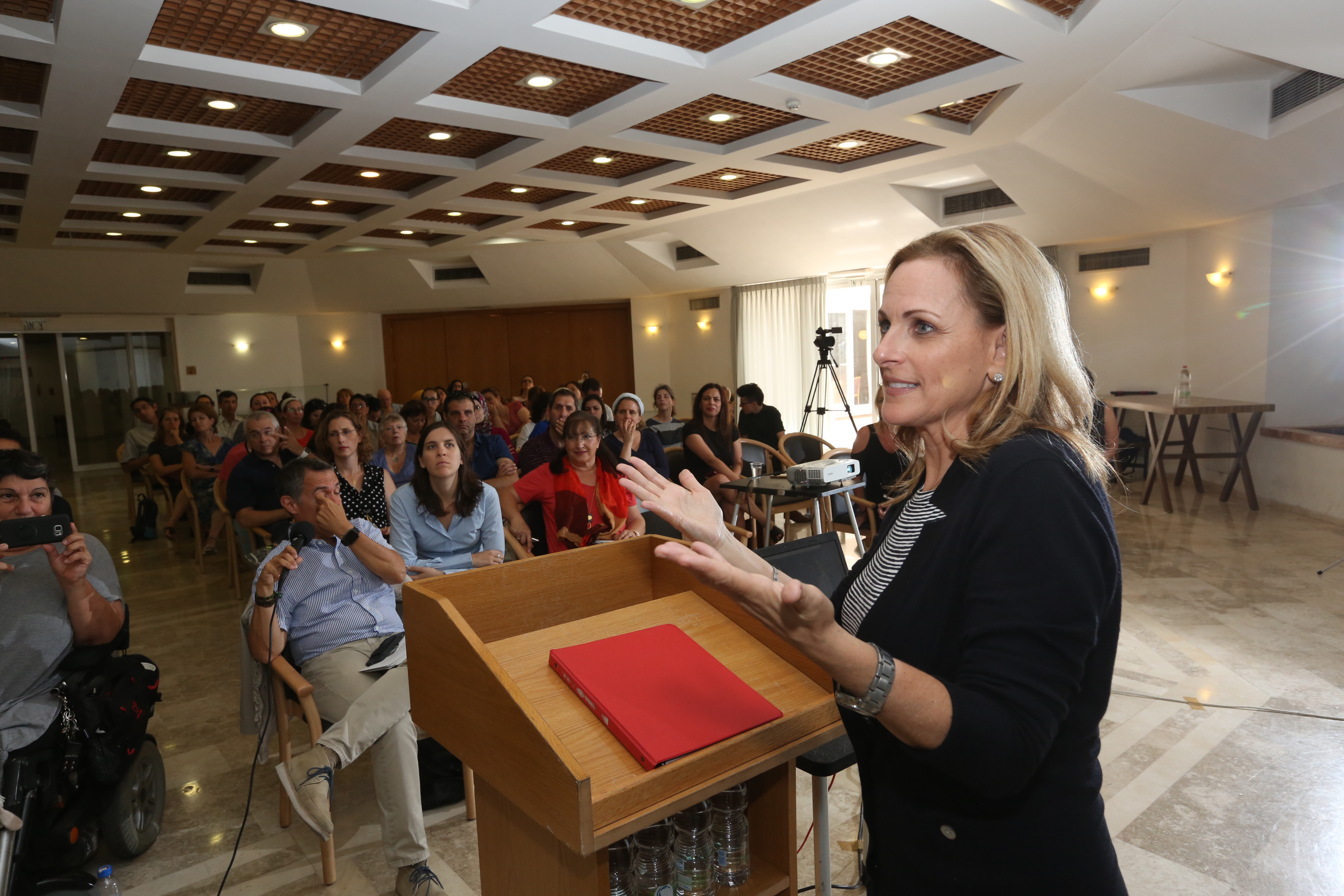 Marlee Matlin, the Oscar-winning Deaf Hollywood actress, spoke at the Maiersdorf Conference Center at the Mount Scopus Campus of the Hebrew University of Jerusalem. The meeting was organized by the Disability Studies Center in the Baerwald School of Social Work and Social Welfare, with the support of the Ruderman Family Foundation and the Joint Distribution Committee in Israel. In the meeting, Matlin talked about People with Disabilities in the Media.